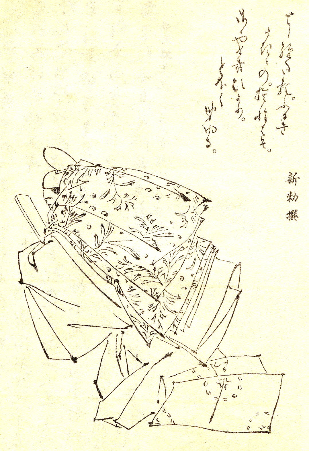 Fujiwara no Yoshimi(藤原良相) was a Japanese politician and court noble in the Heian era.